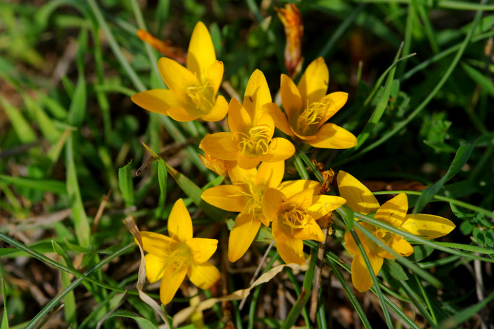 The Turkish crocus or cloth of gold (Crocus graveolens) at the Çukurova University campus in Adana, Turkey. The plant likes slopes of hills in stream valleys. It prefers well-drained red and rocky soils, and requires full sun or partial shade. It blooms from the first week of January to mid of January depending on climatic conditions.